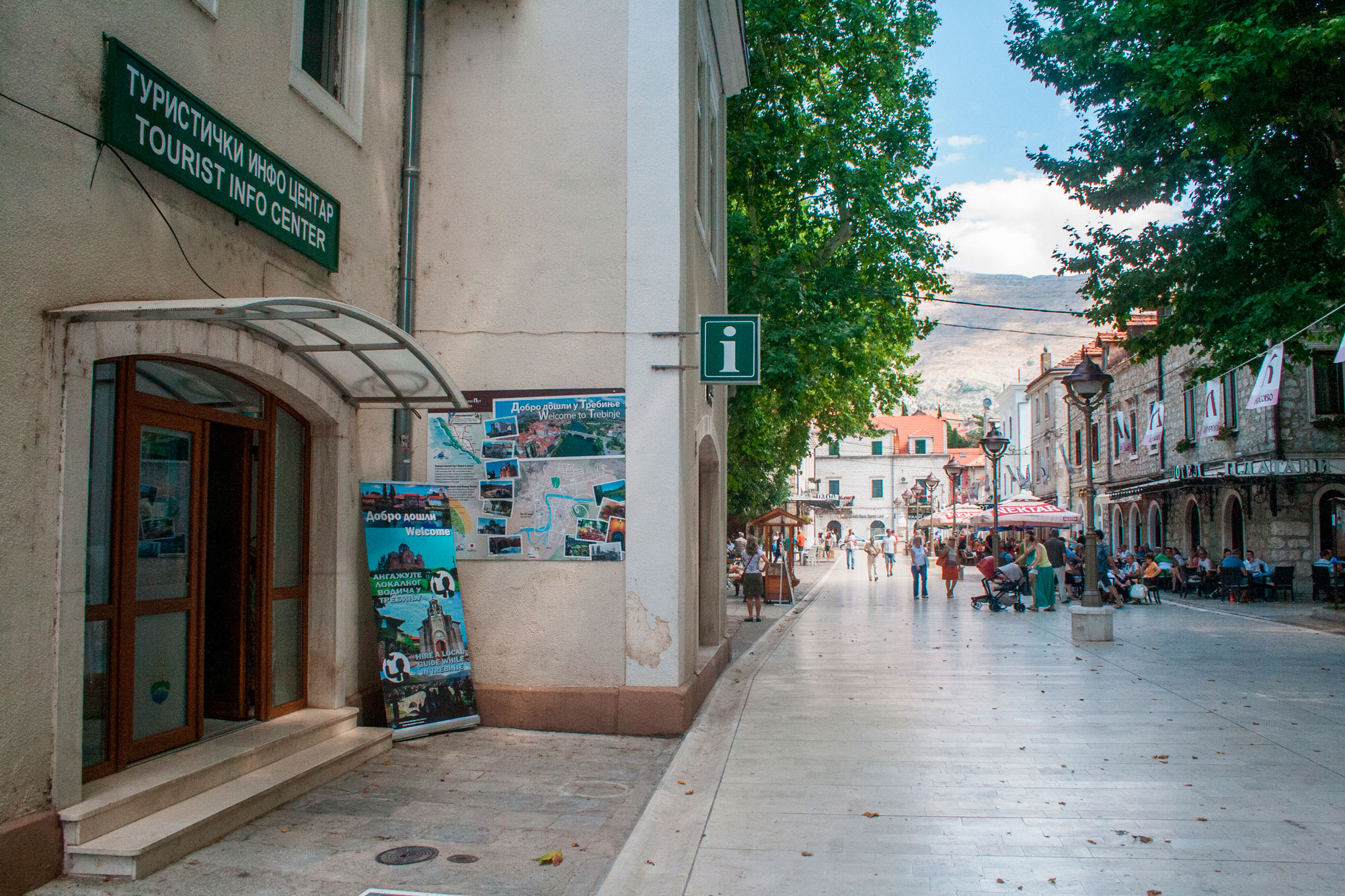 Turistički informativni centar Trebinje se nalazi na adresi Jovana Dučića bb, 89101 Trebinje.